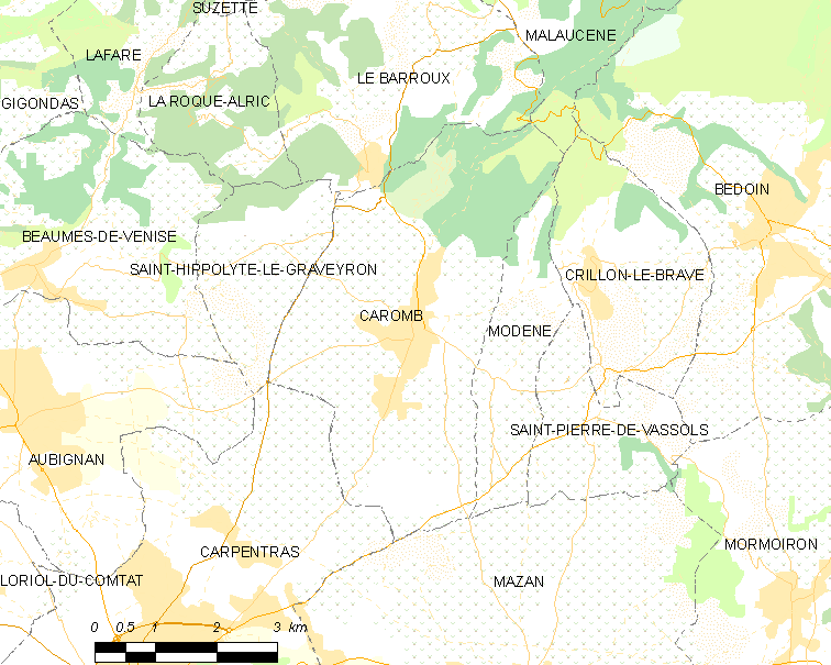 Map of French municipality Caromb